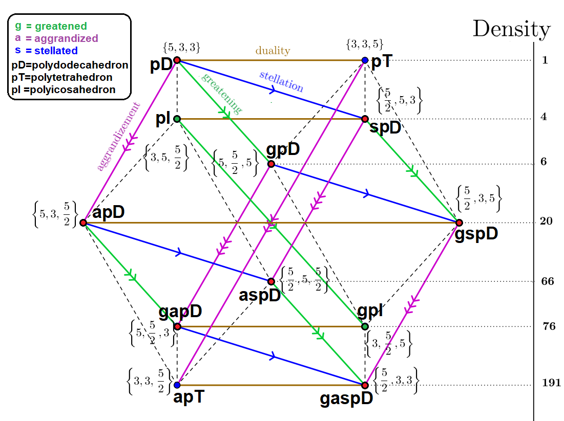 10 regular star 4-polytopes, and 2 regular 4-polytopes related by aggrandizement, greatening, and stellation. Reworked from vector diagram by Gabriel Pallier, relations copied originally from "The Symmetries of Things" by John Conway, p. 406, Fig 26.2